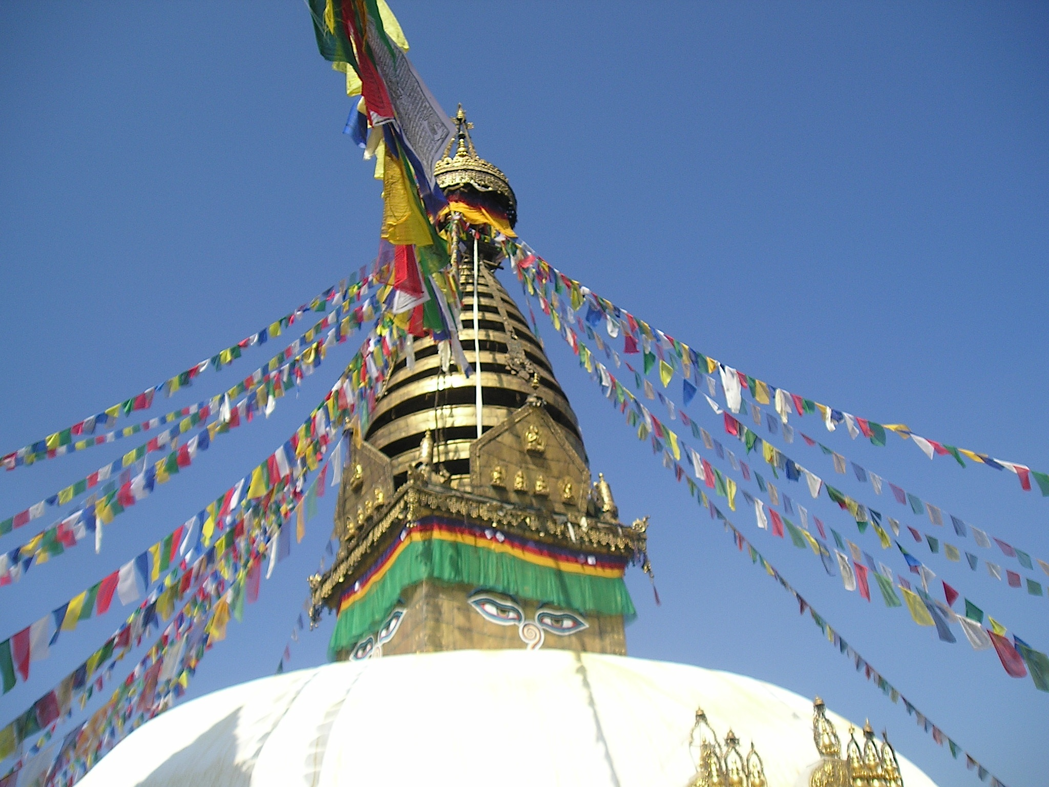 Swayambunath stupa and prayer flags in Kathmandu, Nepal.